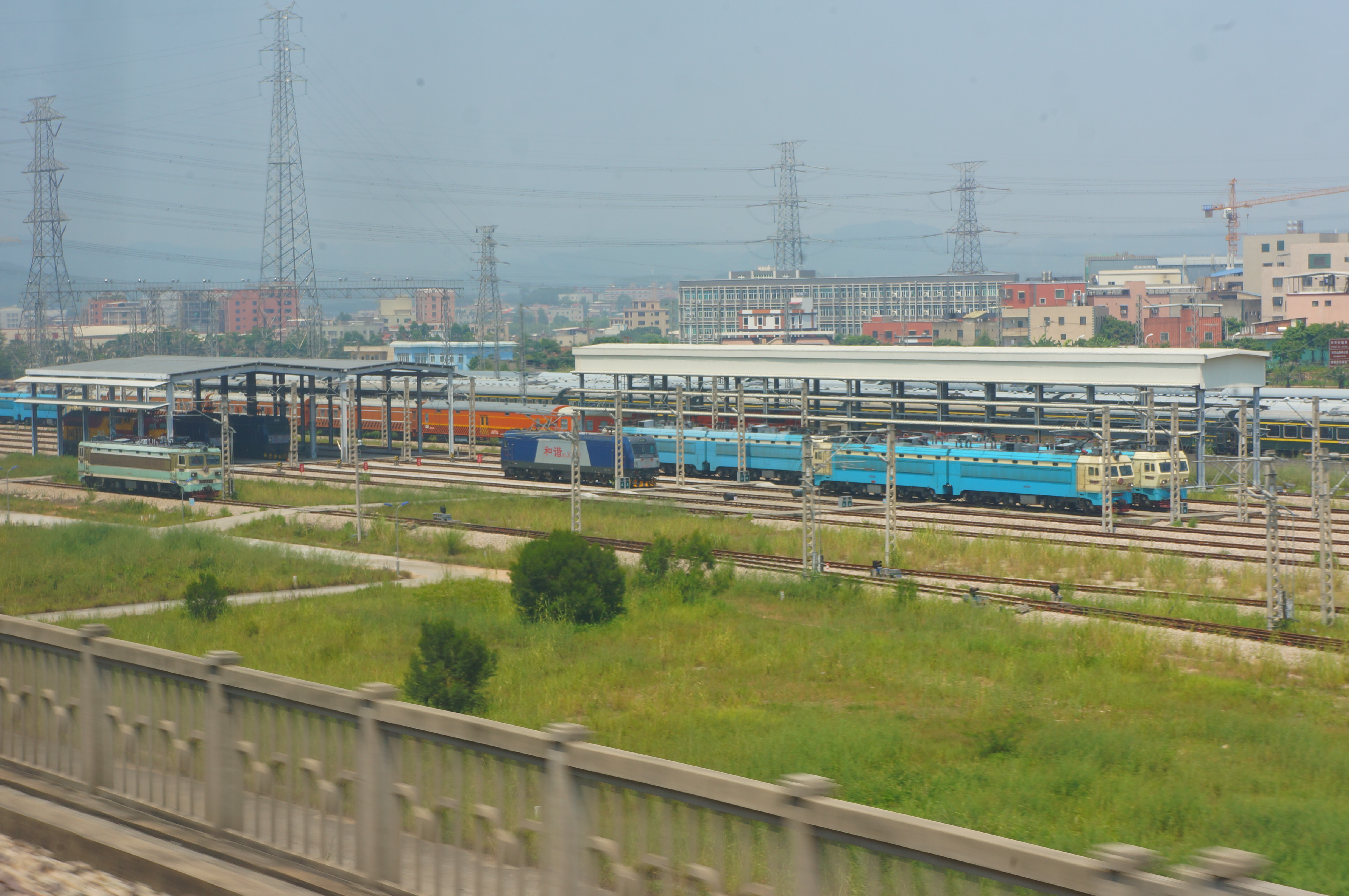 201708 Locomotives at Tong Hu Station, pretty surprises me. Next Station, Khiah Boe. Interchange Station for the Hangzhou-Shenzhen Line.